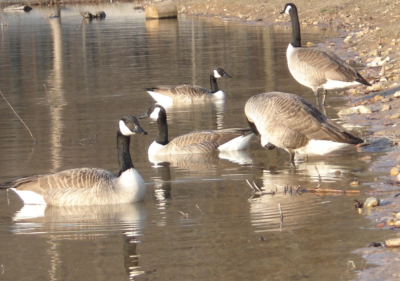 Craighead Forest Park, Jonesboro, Arkansas